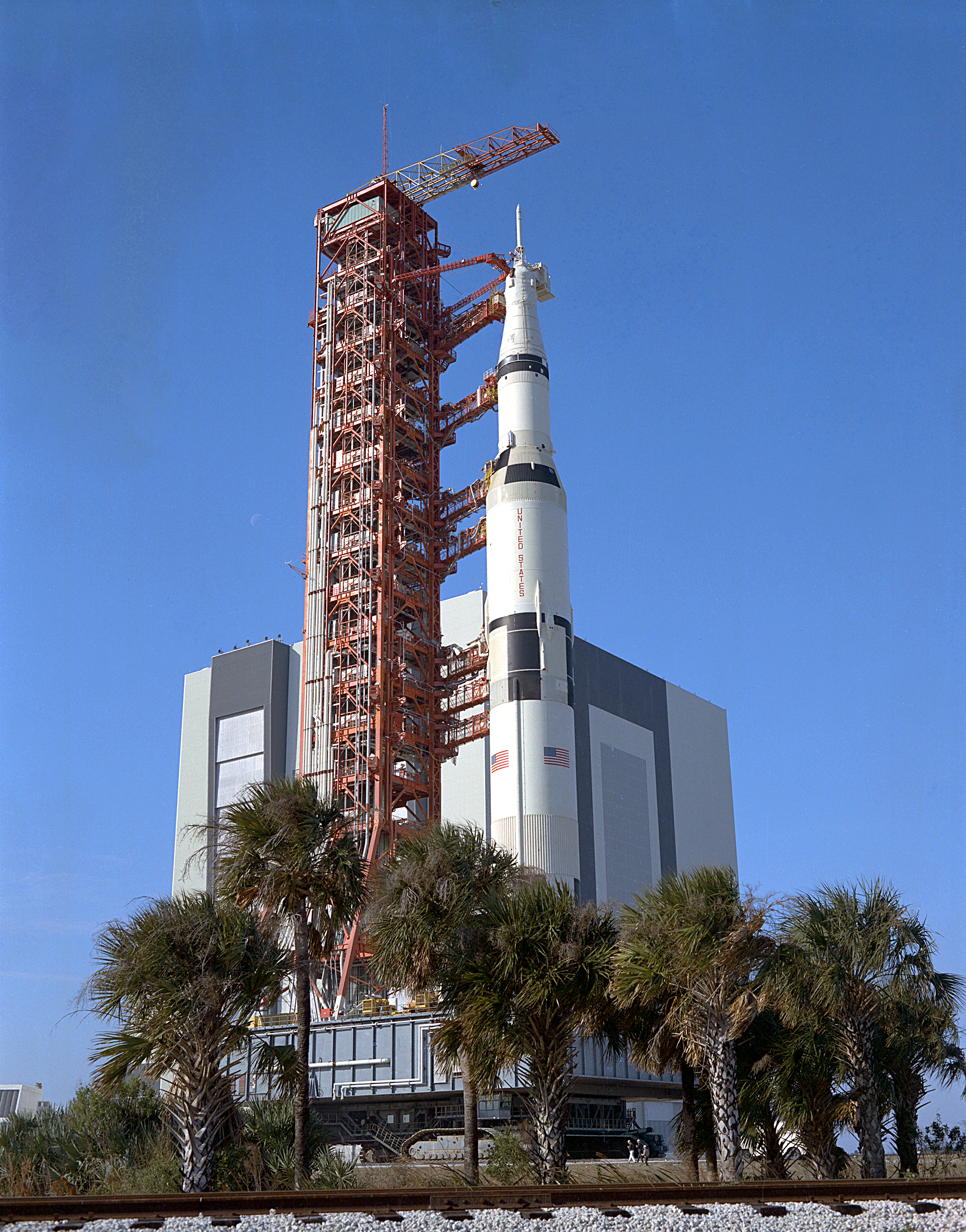 Apollo 10 rollout from the Vehicle Assembly Building (VAB) to Complex 39B.